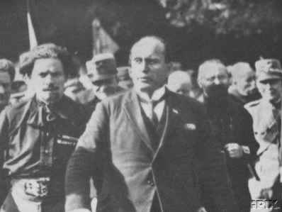 Benito Mussolini (at the center), Italo Balbo (on the left of the picture) and Fascist blackshirts in 1923.